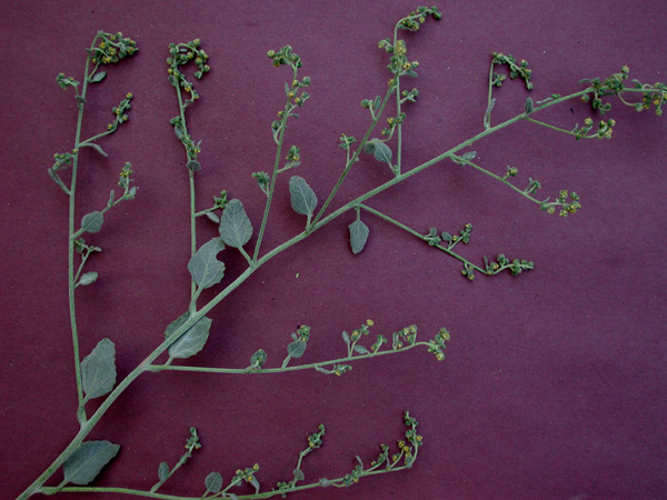 Dicoria canescens from along the Gila River, Maricopa County, Arizona, USA